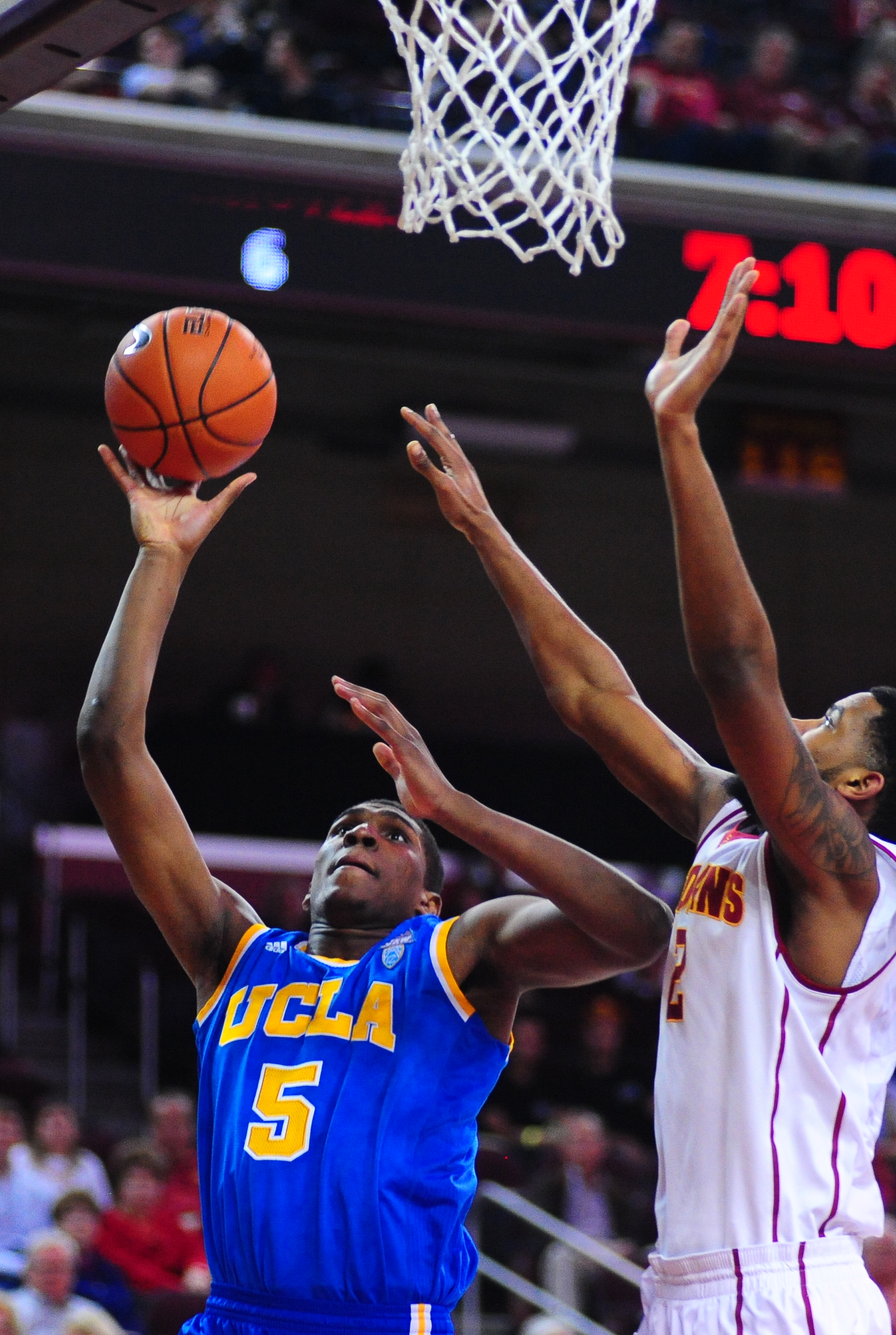 Kevon Looney of UCLA Bruins against Malik Martin of USC Trojans